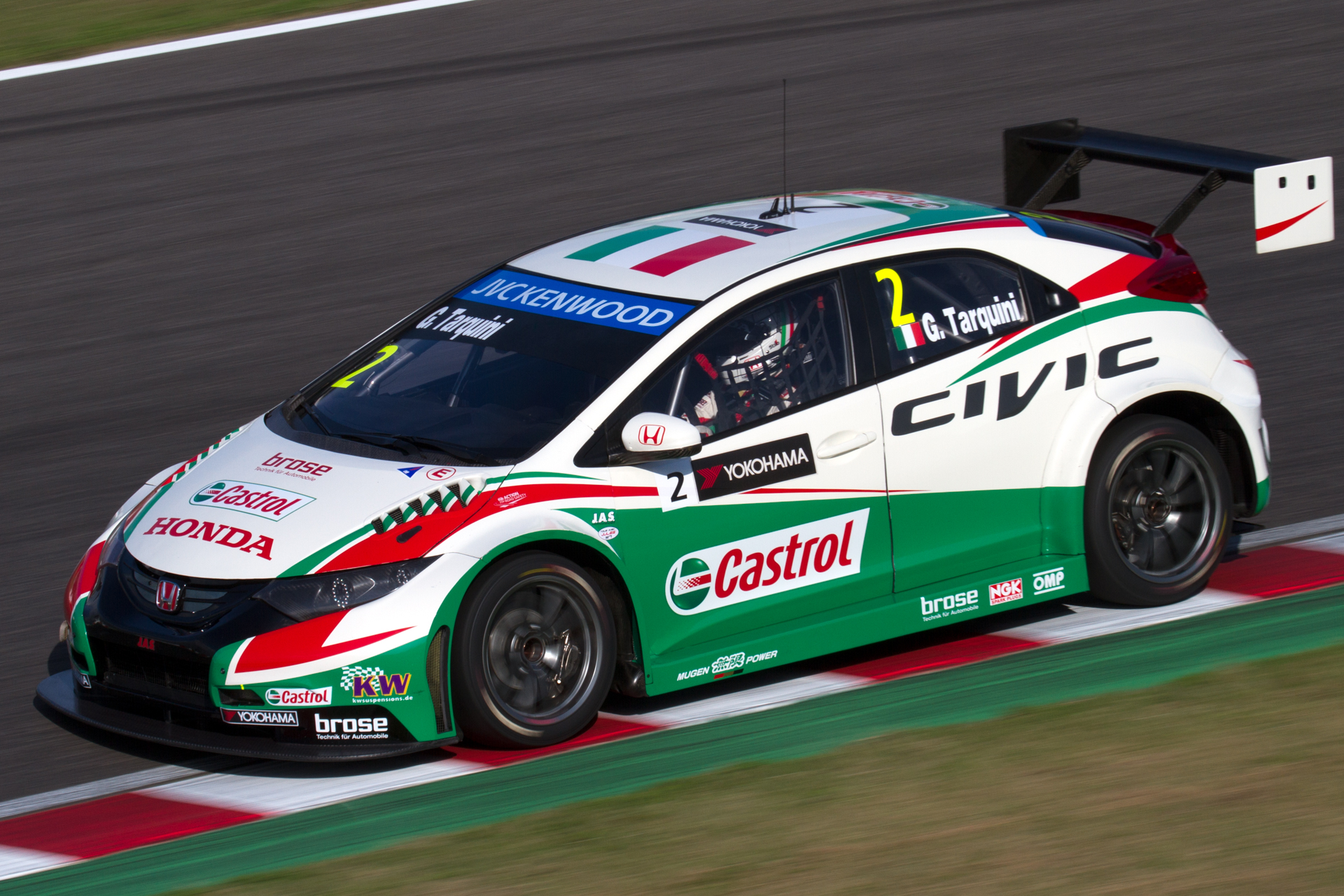 World Touring Car Championship 2014 Race of Japan: Gabriele Tarquini (Honda WTC Team)